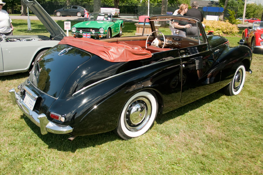 Sunbeam-Talbot 90 MkIIA